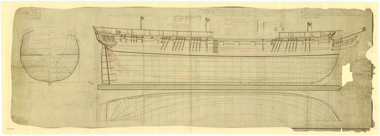 EURYALUS 1803 lines